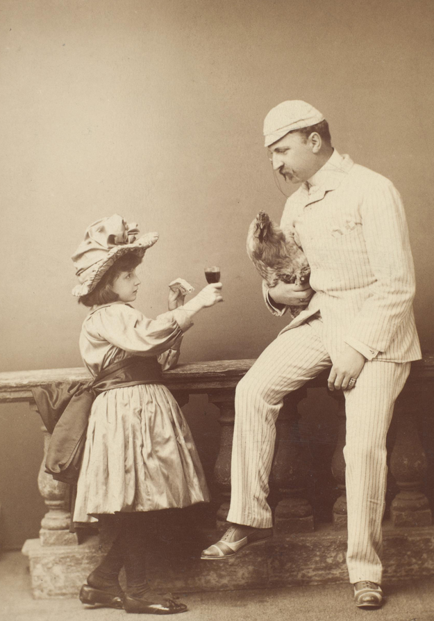 Object: Photograph Place of origin: London (photographed) Date: 1888 (photographed) Artist/Maker: Elliott & Fry (photographer) Materials and Techniques: Sepia photograph on paper Credit Line: Bequeathed by Guy Little V&A's collections. Museum number: S.133:685-2007 Gallery location: In Storage